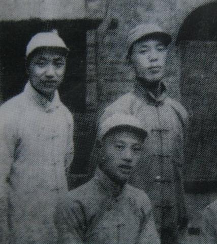 year 1945 Zhao ziyang in huaxian